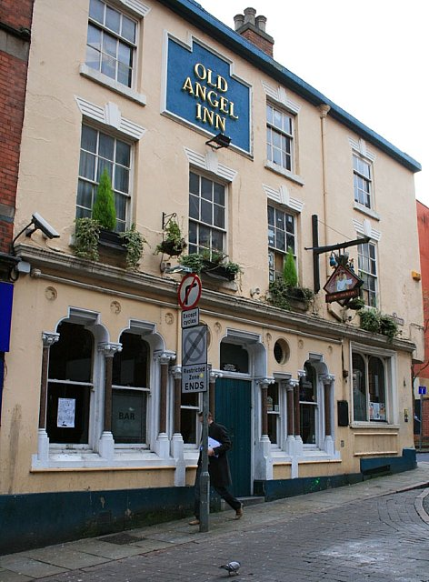 Old Angel Inn, Stoney Street, Lace Market, Nottingham. A regular entry in The Good Beer Guide.